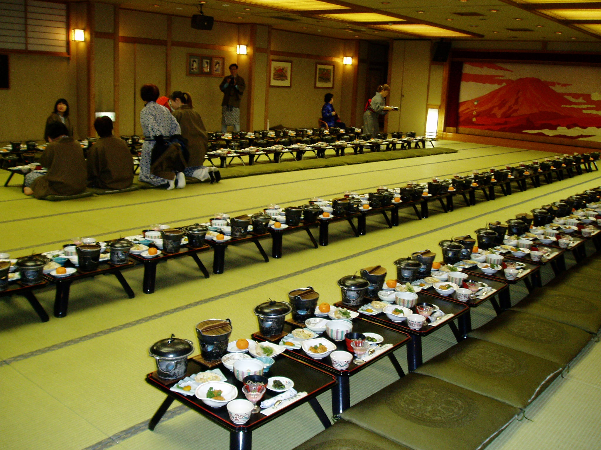 This is how they serve tourists dinner. Cool place, very authentic, tatami thruout, you sleep on the floor and such.